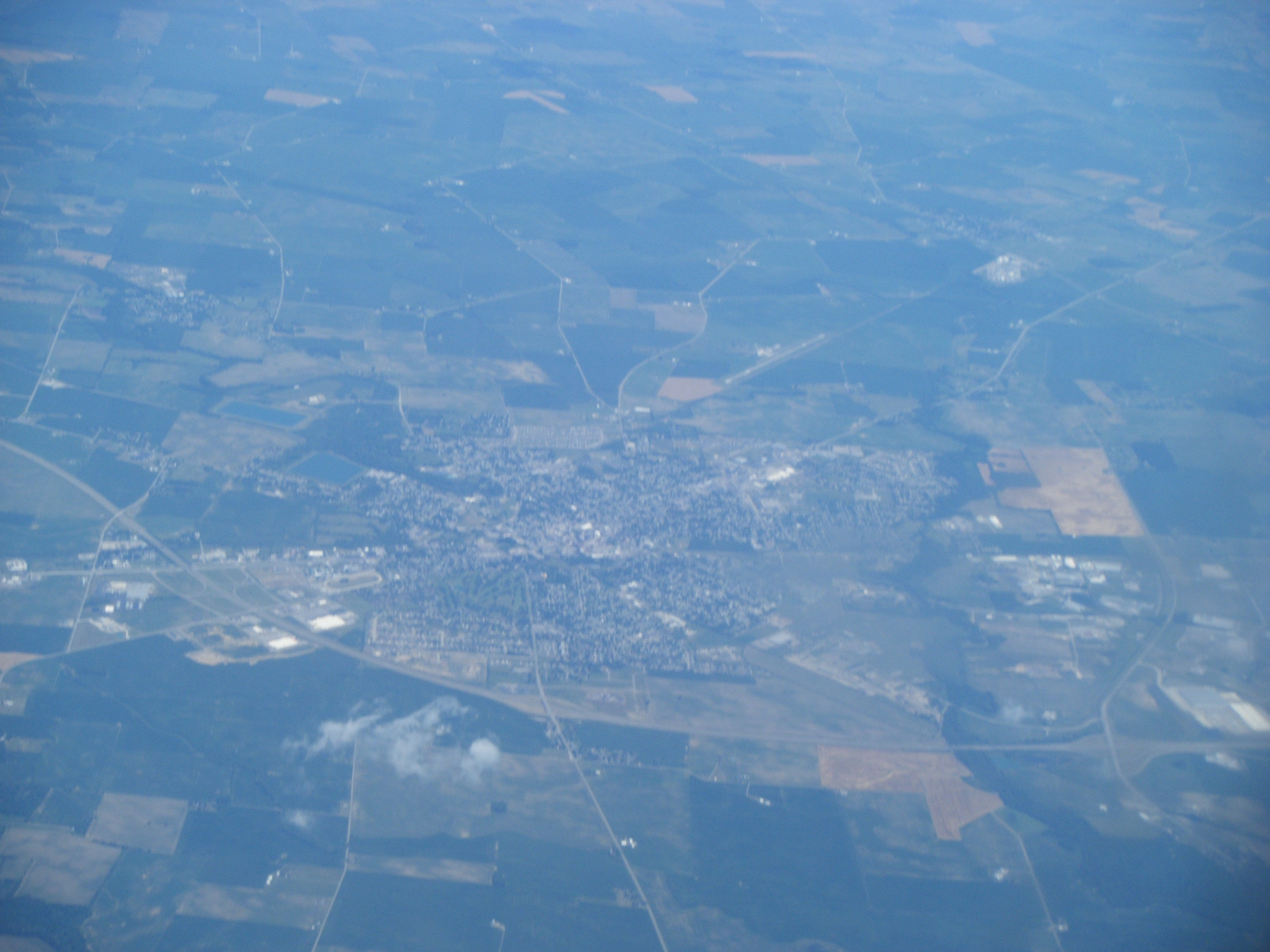 A view of Washington Court House, Ohio taken from an airplane